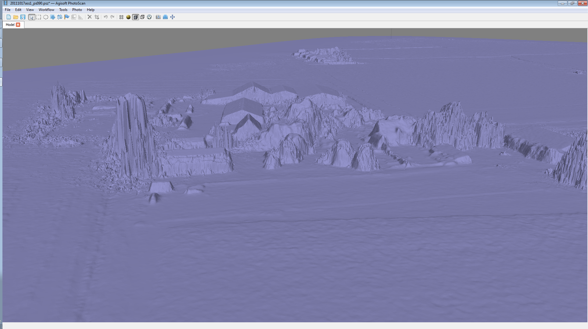 DEM of a test terrain in Belgium. Flown by the Gatewing X100 UAS @ 150m